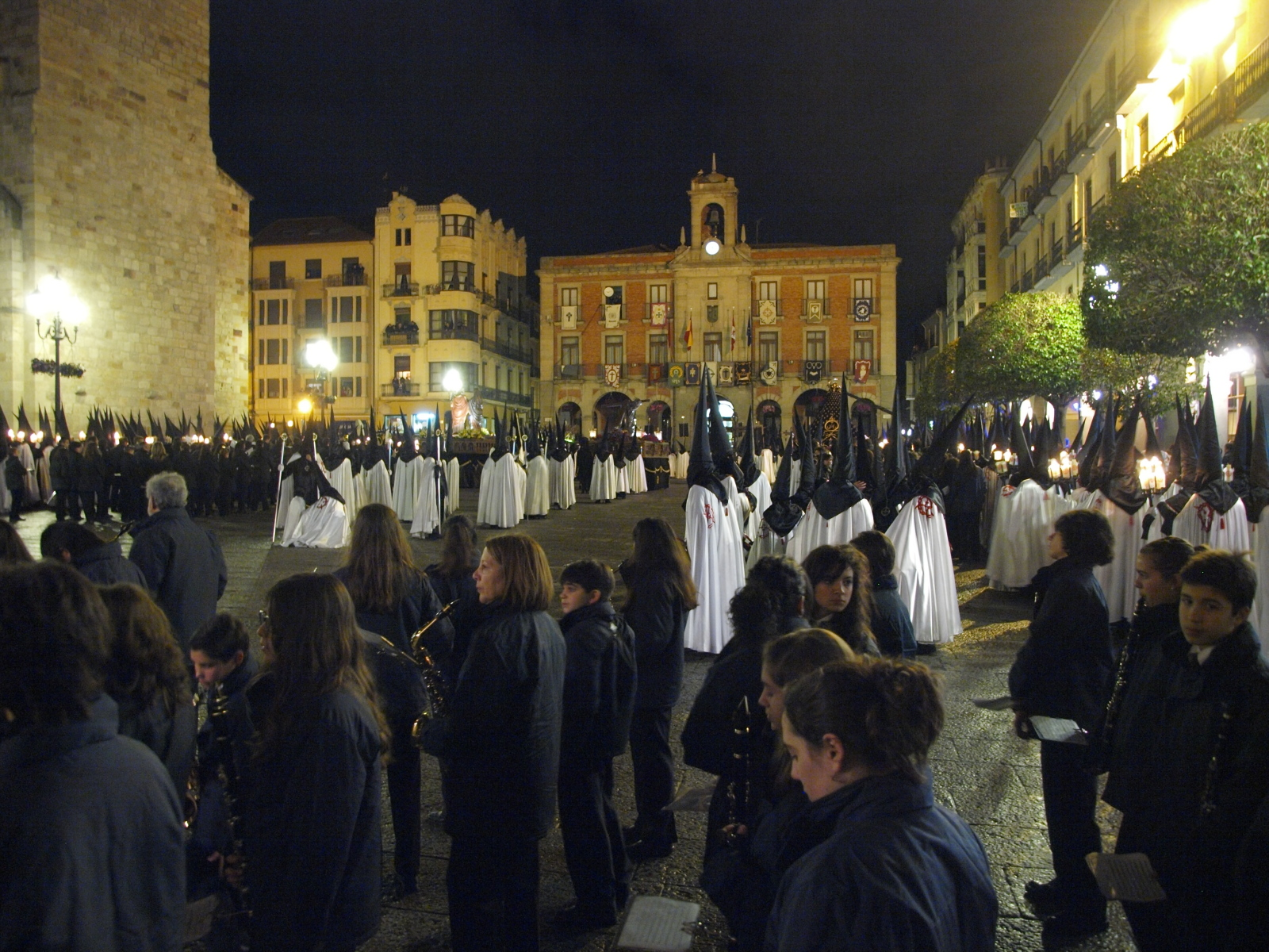 Procession of the religious brotherhood Hermandad de Jesús en su Tercera Caída, Zamora (Spain), Holy Week 2013